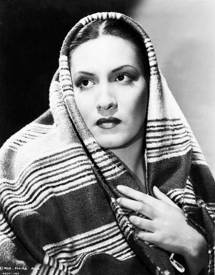 Photograph of Mexican singer and actress Elvira Ríos as Yakima in the film Stagecoach.